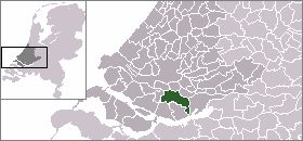 Location of Binnenmaas (2007) in the Netherlands.